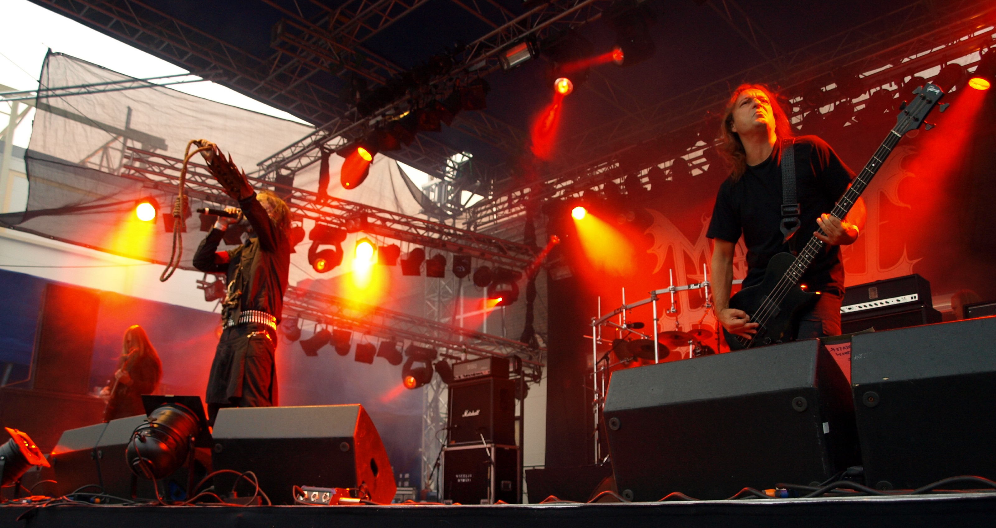 Norwegian black metal band Mayhem live at Jalometalli 2008 in Oulu.